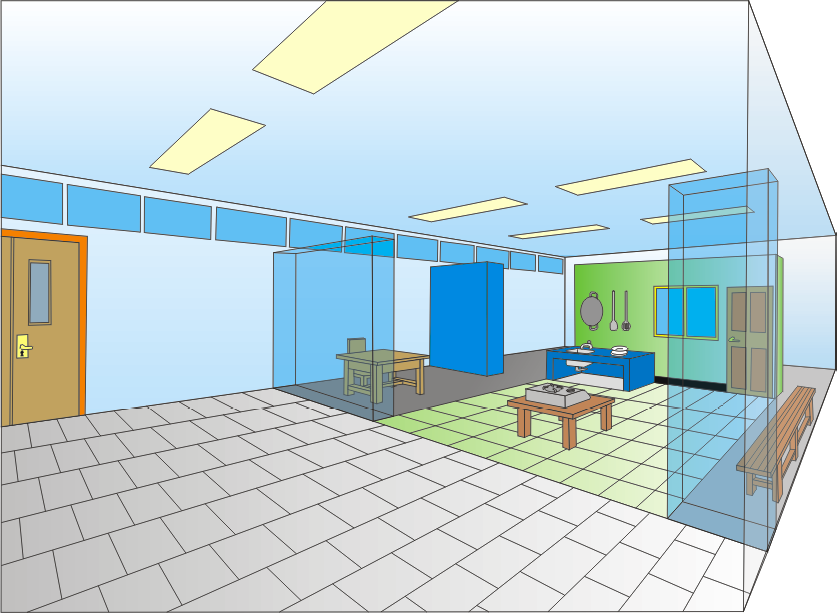 Perspective design of a room with kitchen appliances decoration which is used for drama.